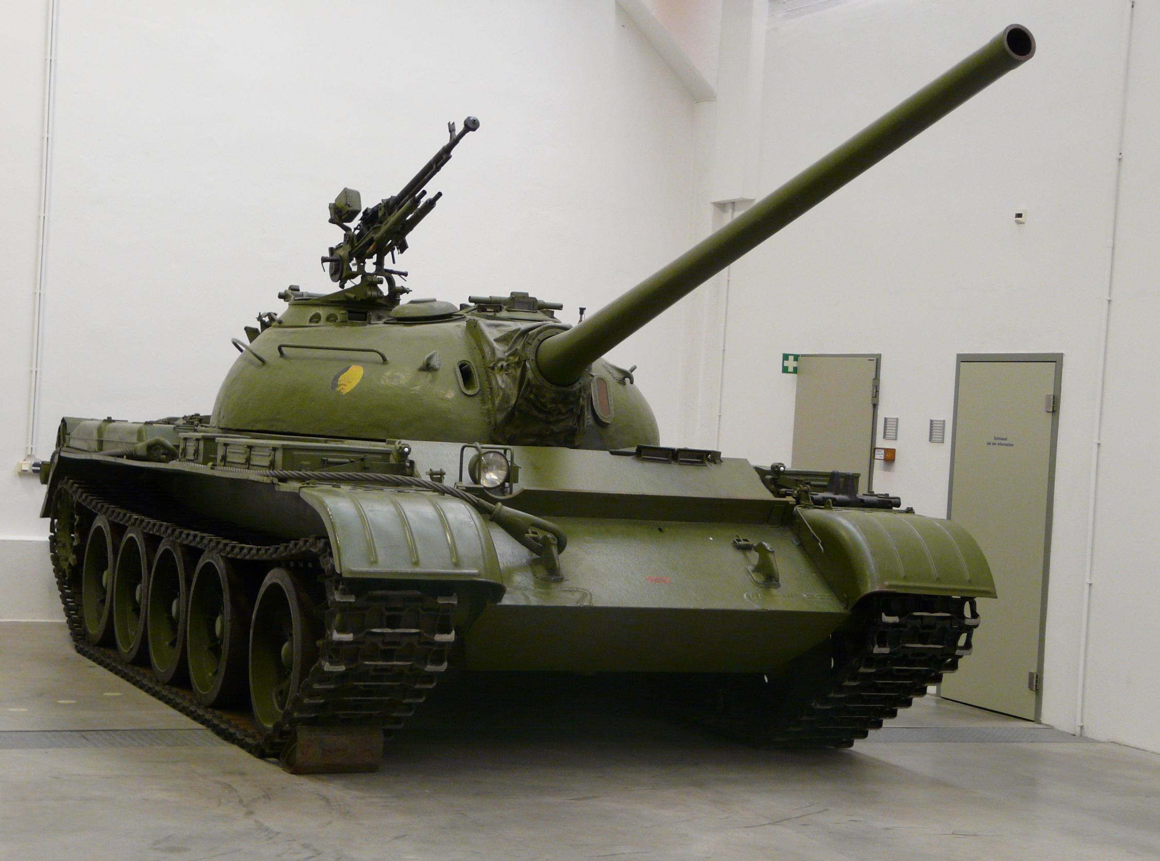 Soviet T-54 medium battle tank of the National People's Army in the Bundeswehr Military History Museum in Dresden.